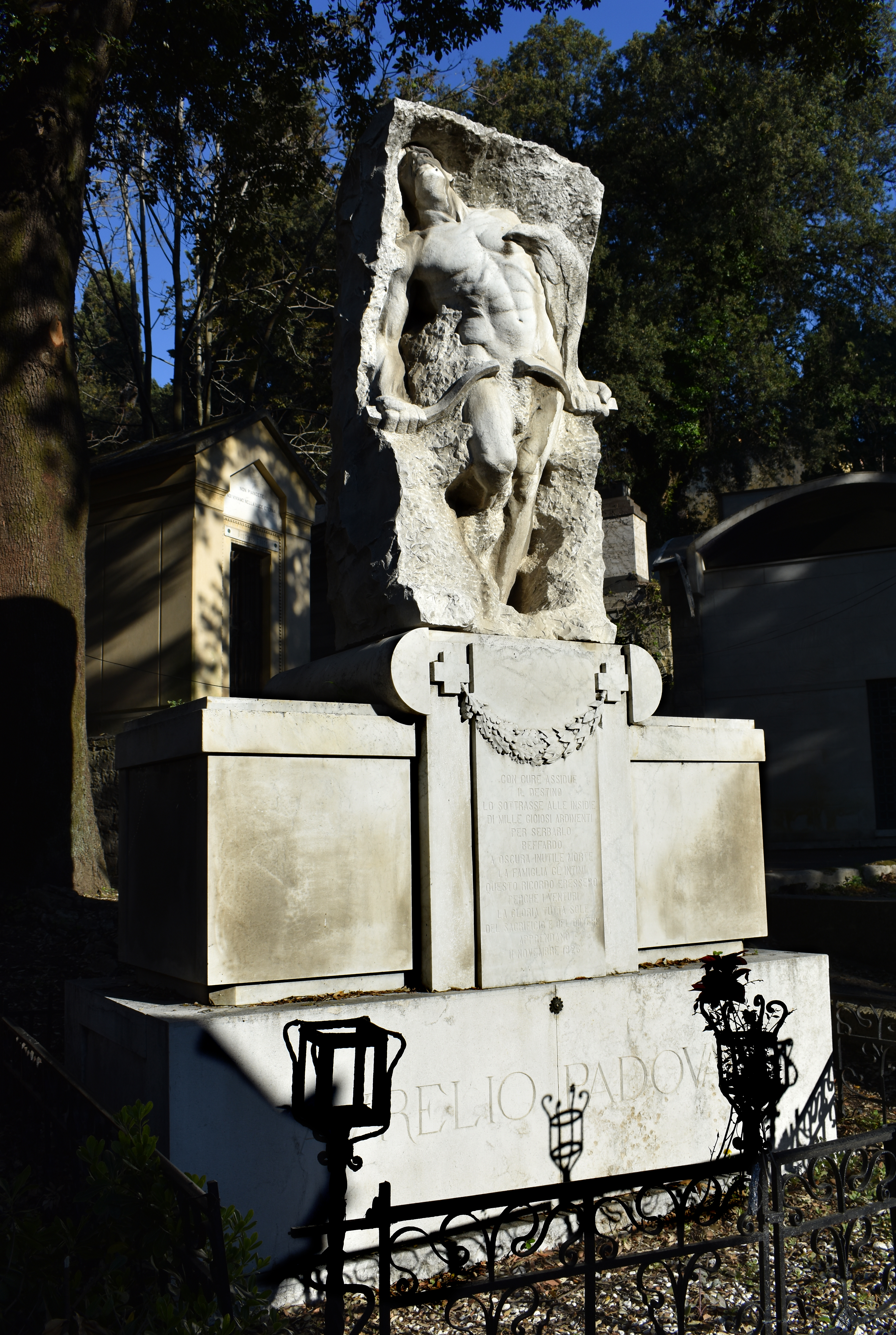 sculptural cemetery tomb monument for early Fascist leader